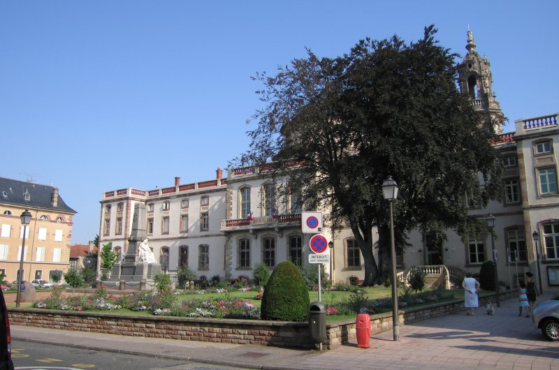 Lunéville's town hall, summer 2006, France.